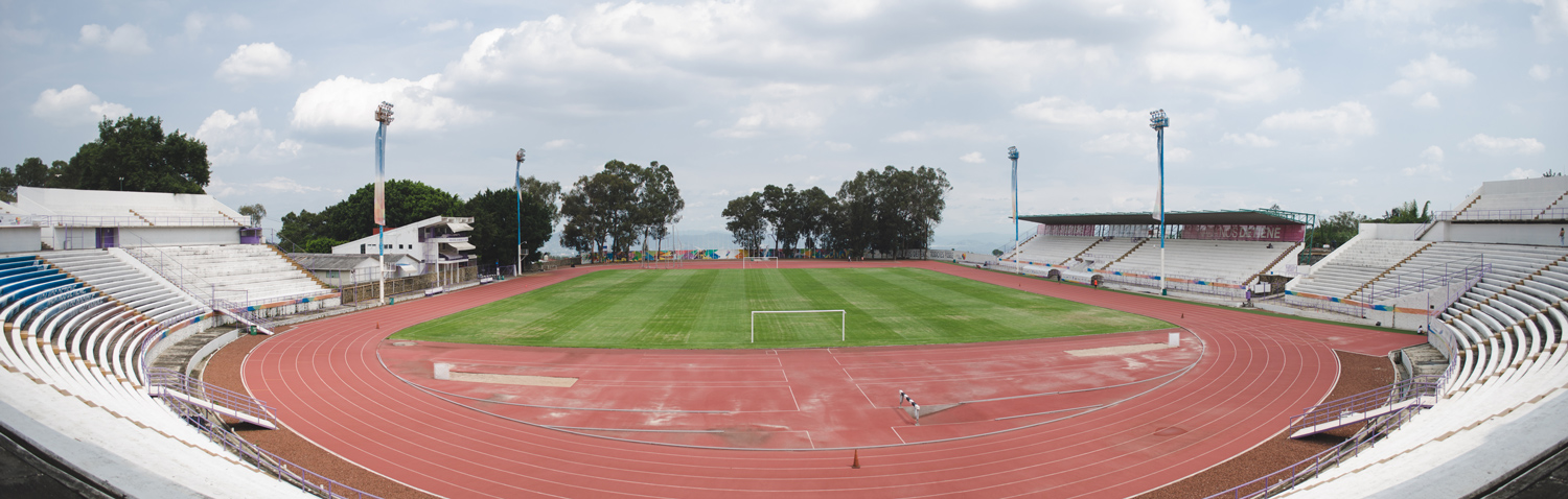 Establishing shot of the Centenario Stadium in Cuernavaca, Morelos